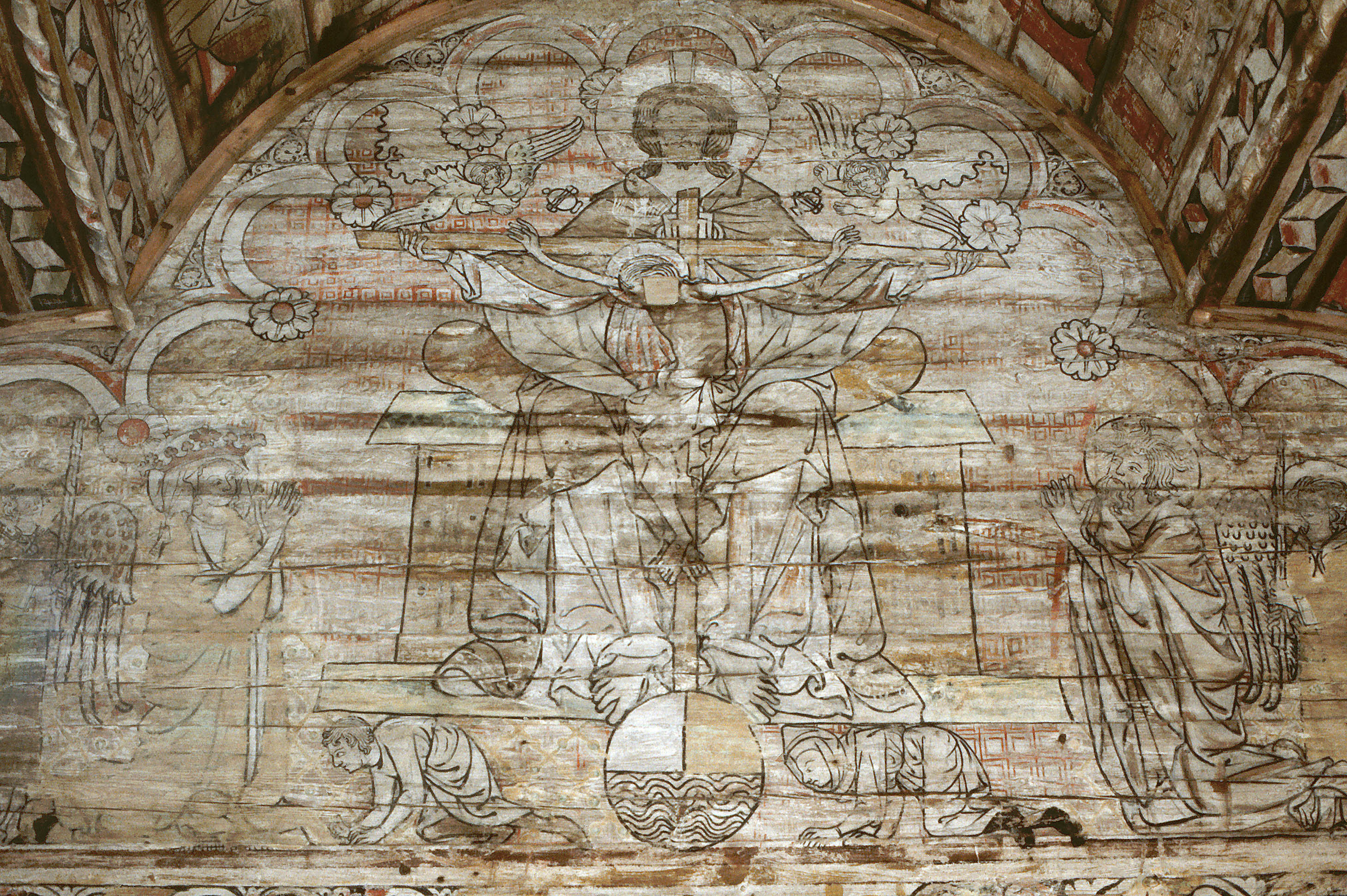 Painting from 1323 in the church of South Råda, Sweden, now destroyed by fire.